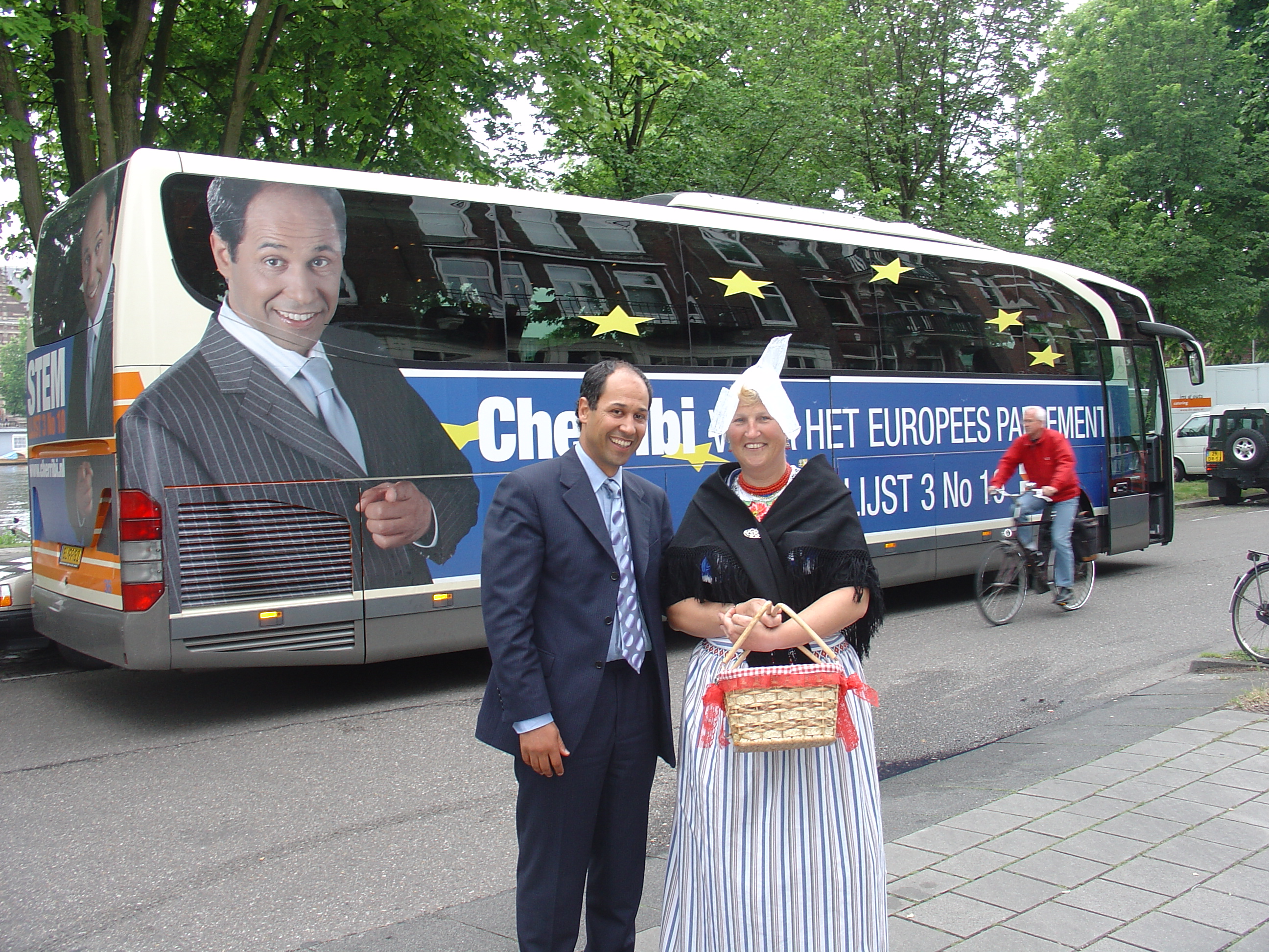 Cherribi campaign bus